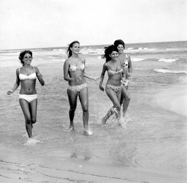 Persistent URL: Local call number: C674080 Title: Bikini models running on the beach: Pensacola, Florida Date: 1969 Physical descrip: 1 photoprint - b&w - 3 x 3 in. Series Title: Department of Commerce Collection Repository: State Library and Archives of Florida, 500 S. Bronough St., Tallahassee, FL 32399-0250 USA. Contact: 850.245.6700.